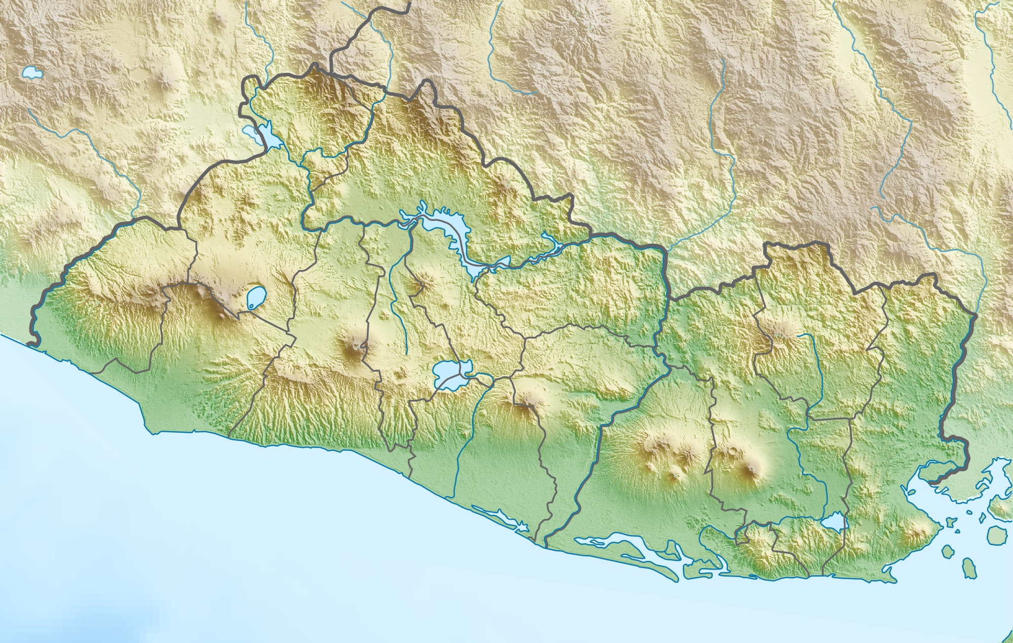 Physical location map of El Salvador Equirectangular projection, N/S stretching 103 %. Geographic limits of the map: N: 14.6° N S: 13.0° N W: 90.2° W E: 87.6° W